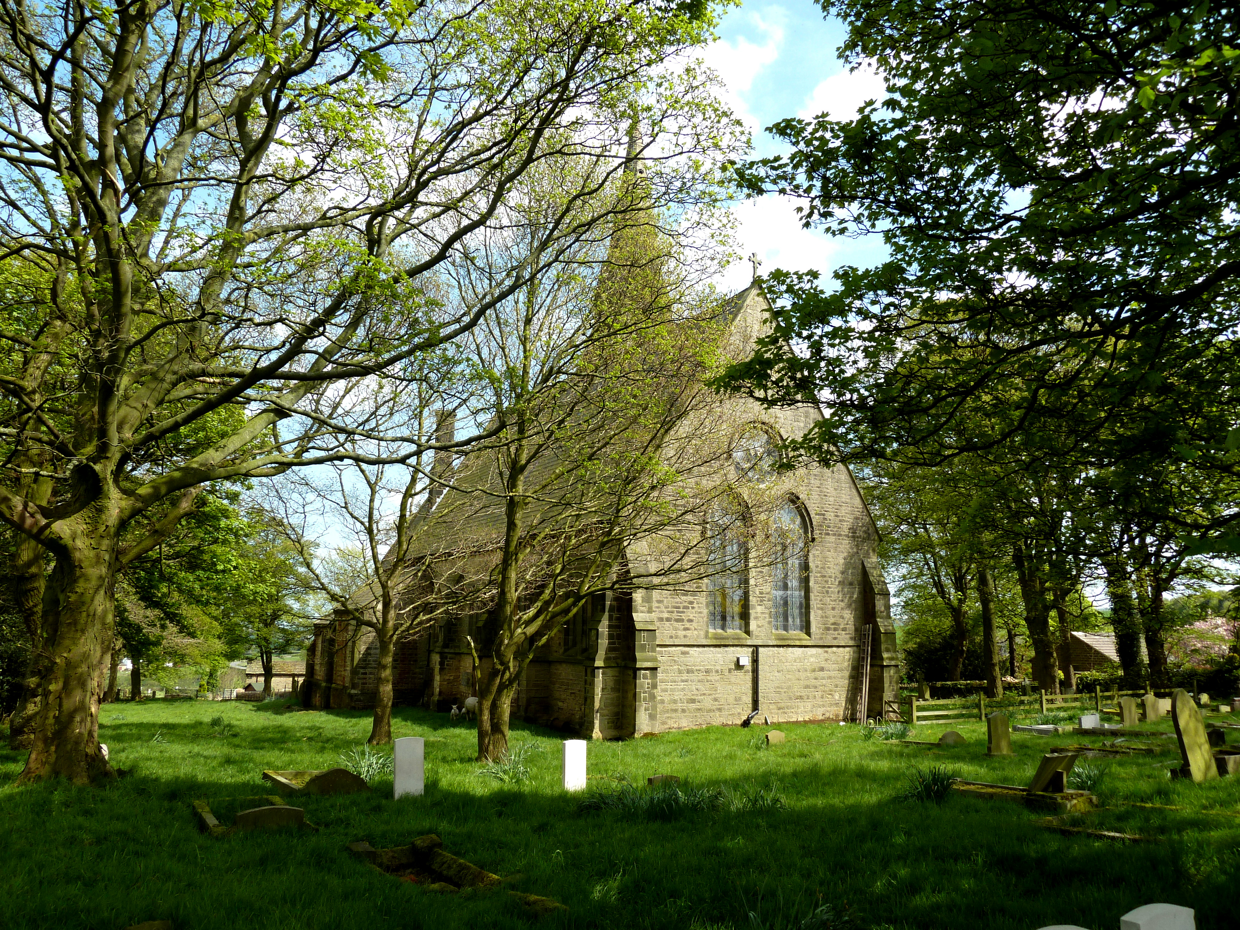 Church of St Thomas, Thurstonland, Huddersfield, West Yorkshire, England. Built 1870, designed by James Mallinson and William Swinden Barber.